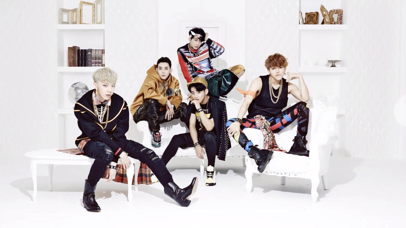 South Korean idol group Myname promotional still for its second mini-album.